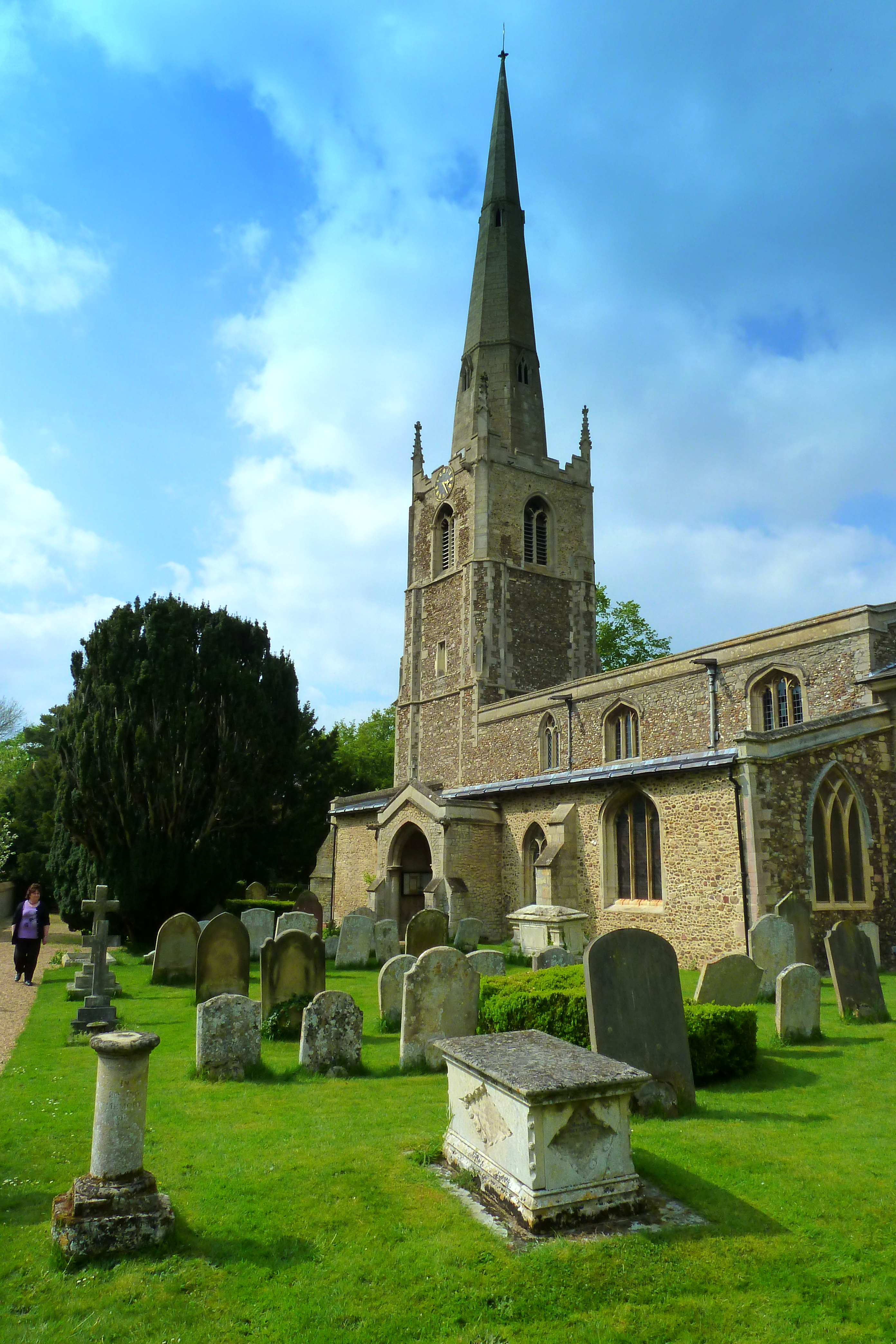 St Margaret's parish church, Hemingford Abbots, Cambridgeshire (formerly Huntingdonshire), seen from the southeast